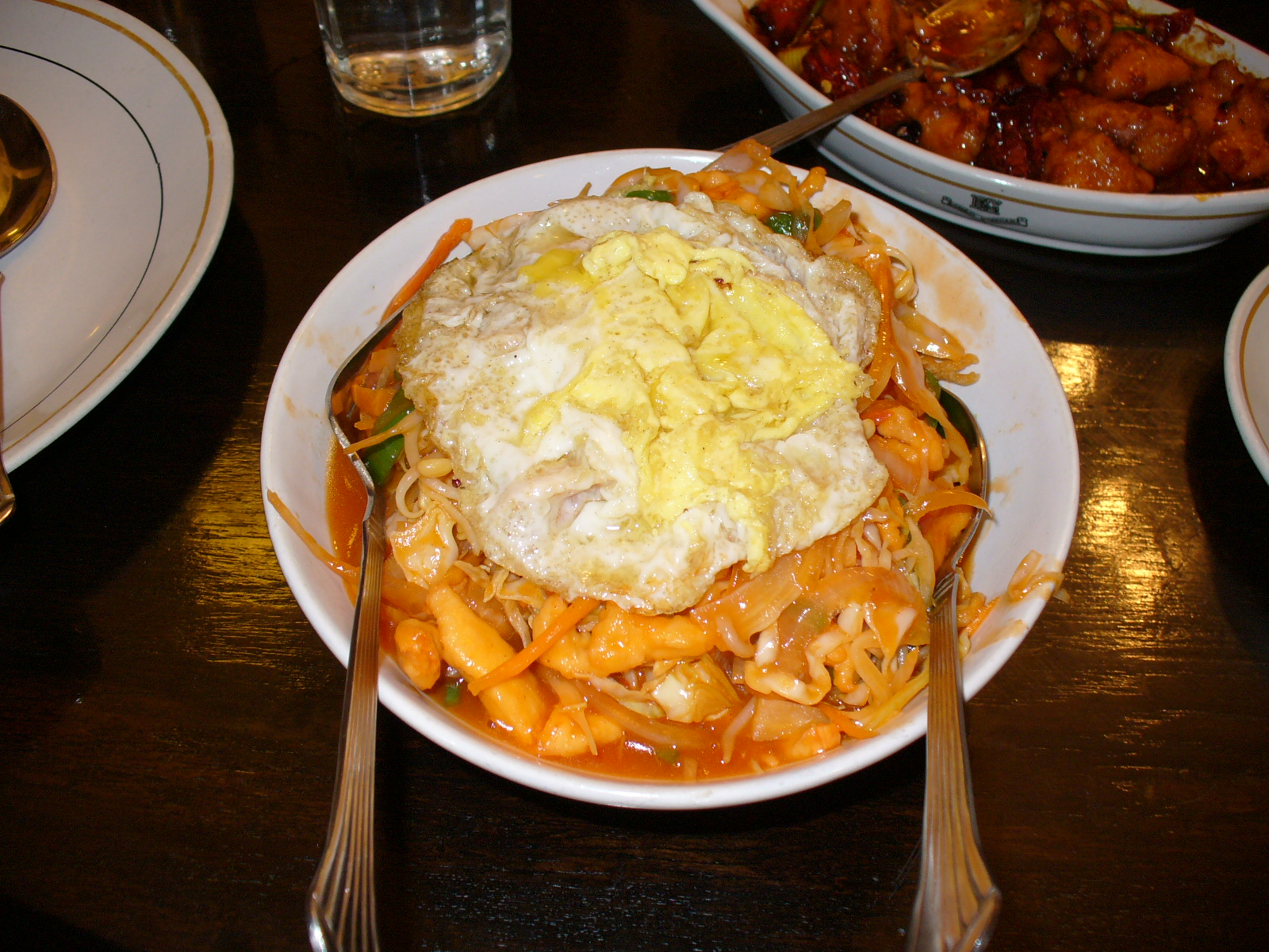 American Chopsuey, as served by the Bombay Gymkhana, Mumbai, India.